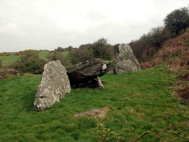 Din Dryfol. The sparse remains of this burial chamber lie hidden away on the side of a small knoll. Taken looking northwest, if memory serves.